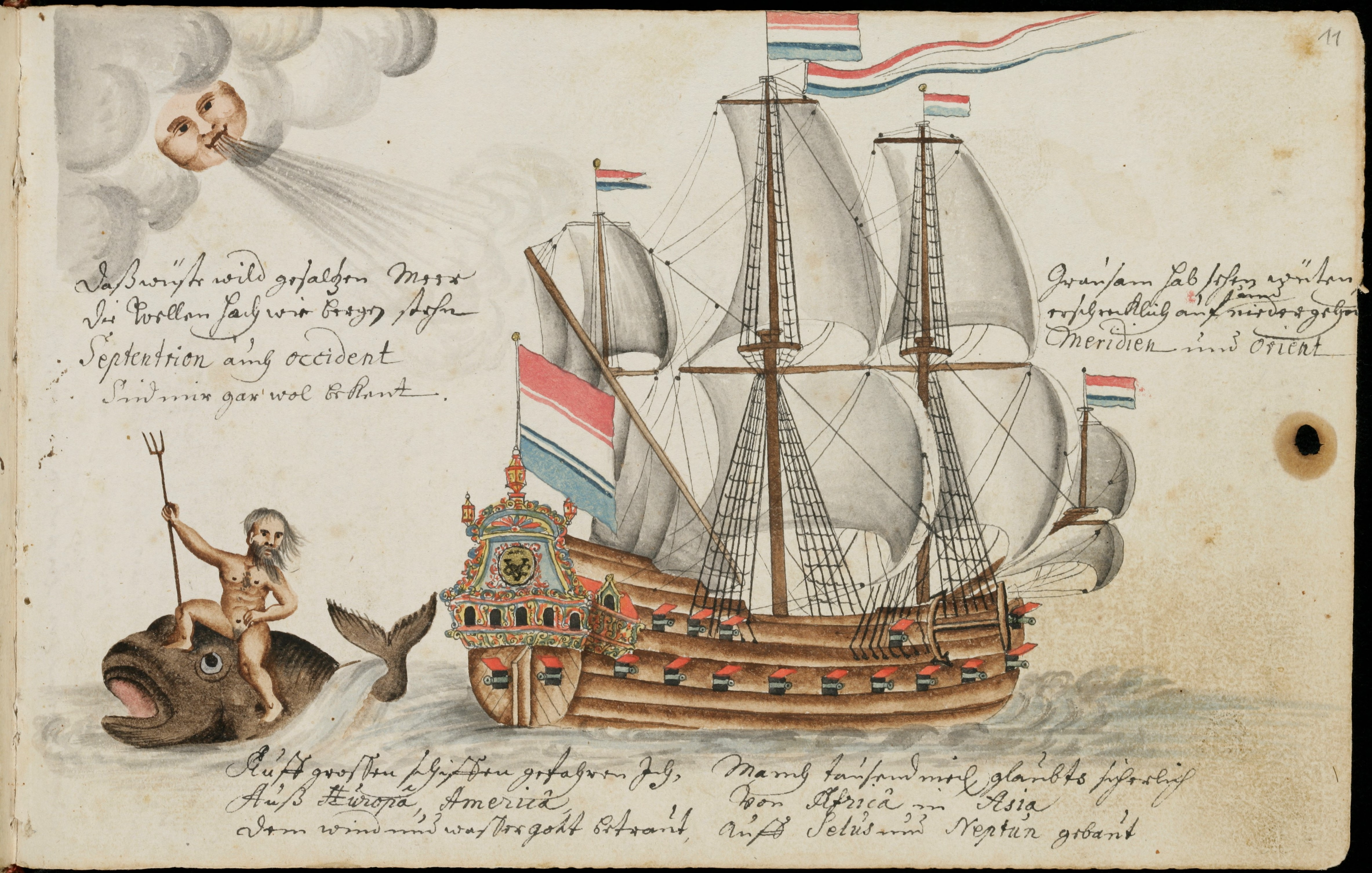 An illustration of the ship Gouda, from "Reise nach Batavia", an illustrated travel diary by the Alsatian world traveler Georg Franz Müller, describing his voyage to South Africa and Indonesia and his stay there (1669-1682) in services of the Dutch East India Company. In the travel book, he illustrated people, animals and plants that he encountered during his journey and also composed simple verses about them. (Source.)